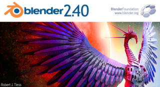 Open Screen of Blender 2.40.